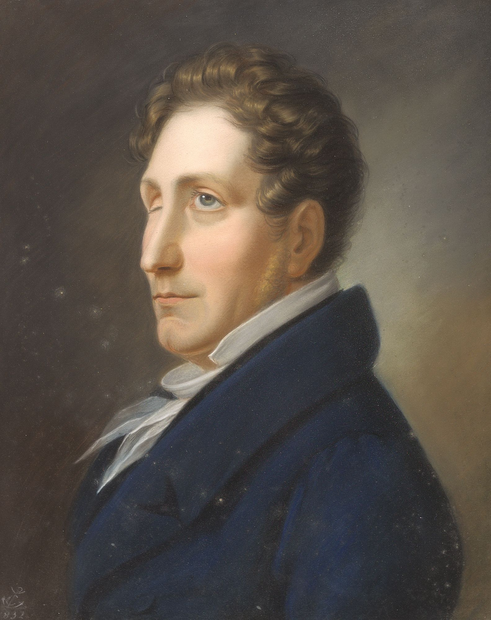 Copmann did this as a copy of Christian Horneman's portrait of the composer Kuhlau.